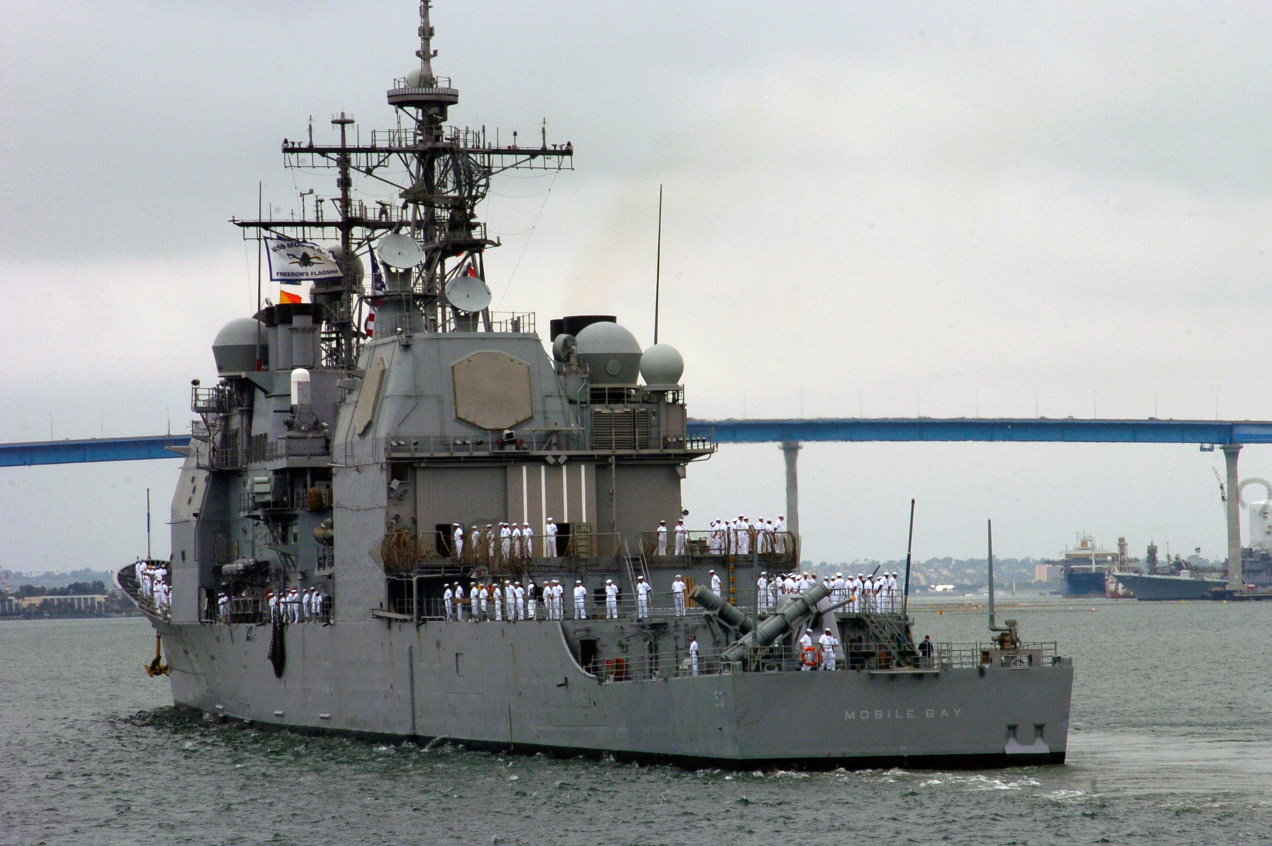 San Diego, Calif. (Jun. 17, 2004) - Sailors aboard the Ticonderoga-class guided missile cruiser USS Mobile Bay (CG 53), “man the rails” as the ship heads for the Coronado Bridge. Mobile Bay is part of the Belleau Wood Expeditionary Strike Group (ESG). Bella Wood ESG is comprised of three amphibious warships Belleau Wood, amphibious transport dock USS Denver (LPD 9) and amphibious dock landing ship USS Comstock (LSD 45), along with the guided missile destroyers USS Hopper (DDG 70) and USS Preble (DDG 88) and fast-attack submarine USS Charlotte (SSN 772). Bella Wood ESG surface force combines with elements of the special operations capable 11th Marine Expeditionary Unit (MEU) to produce a national defense asset capable of conducting sustained combat operations and humanitarian assistance from sea or shore. Bella Wood ESG is currently deployed in support of the global war on terrorism. U.S. Navy photo by Photographer’s Mate Airman Jerry S. Wright (RELEASED)